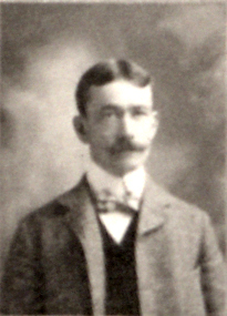 Ice hockey player Jack Armytage of the 1899–1900 Winnipeg Victorias team.